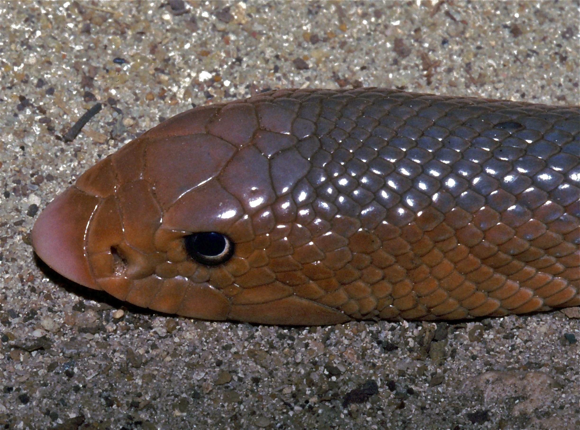 Snake Park, Watamu, KENYA Scanned Slide from 2002